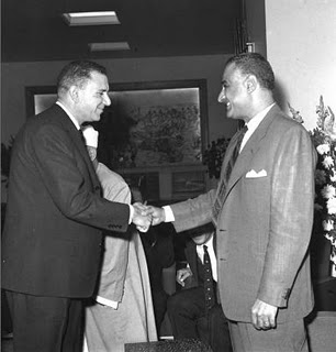 Minister of Defense Shams Badran shaking hands with president Gamal Abdel Nasser